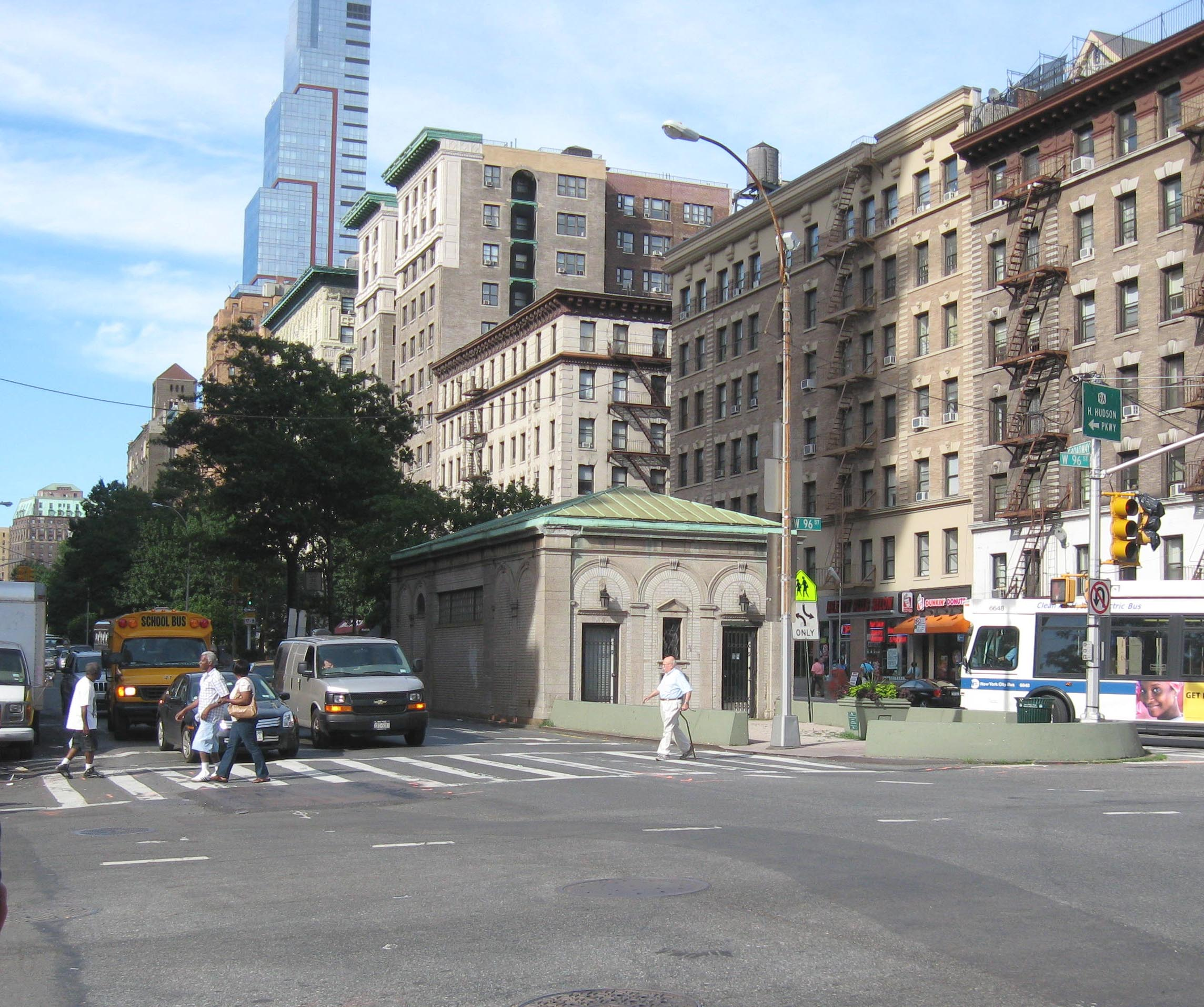 Looking northeast at Community Center, median of Broadway on north side of Wen:96th Street (Manhattan) on a sunny afternoon